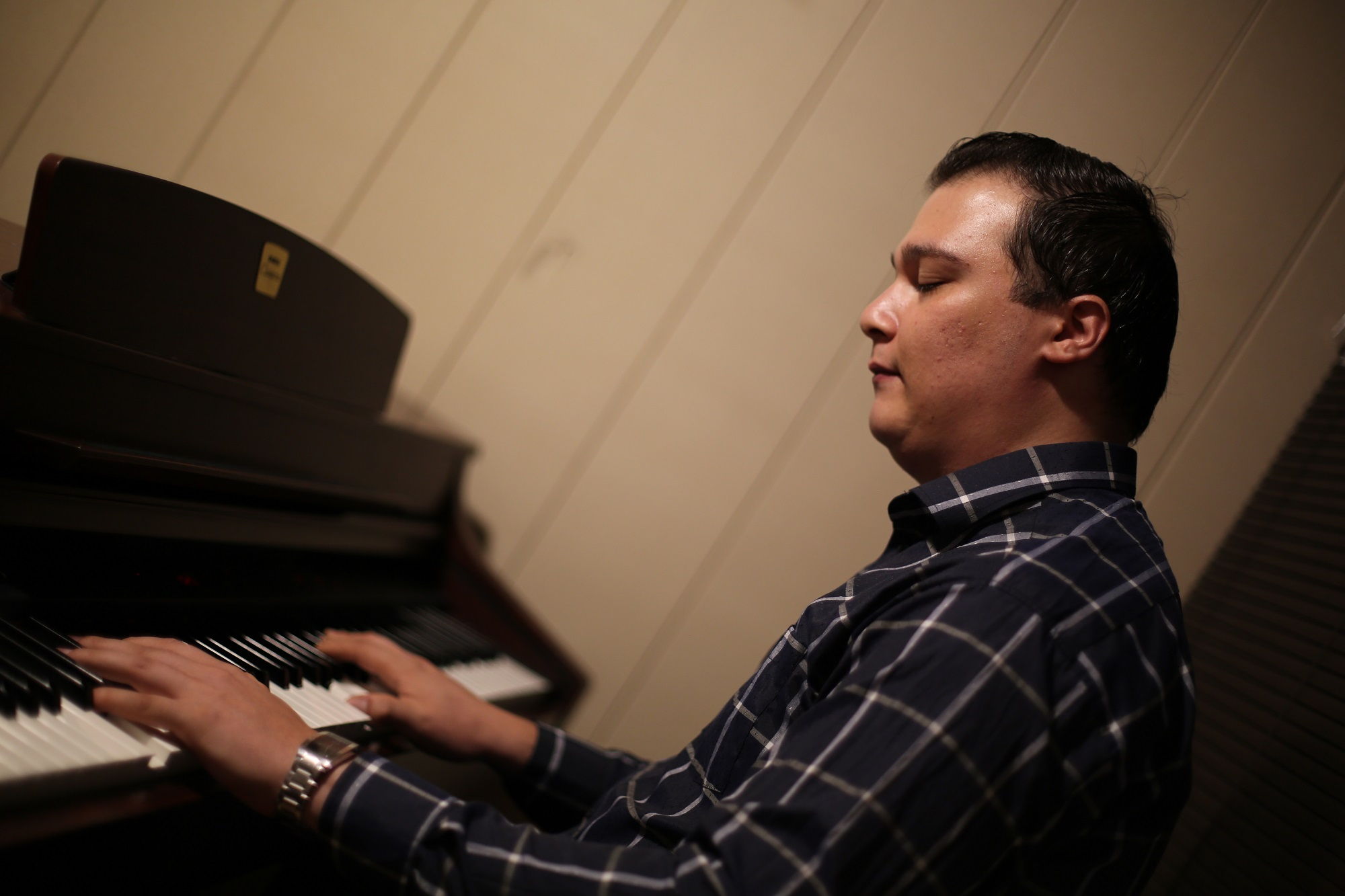 Alireza Motevaseli playing Piano 2014